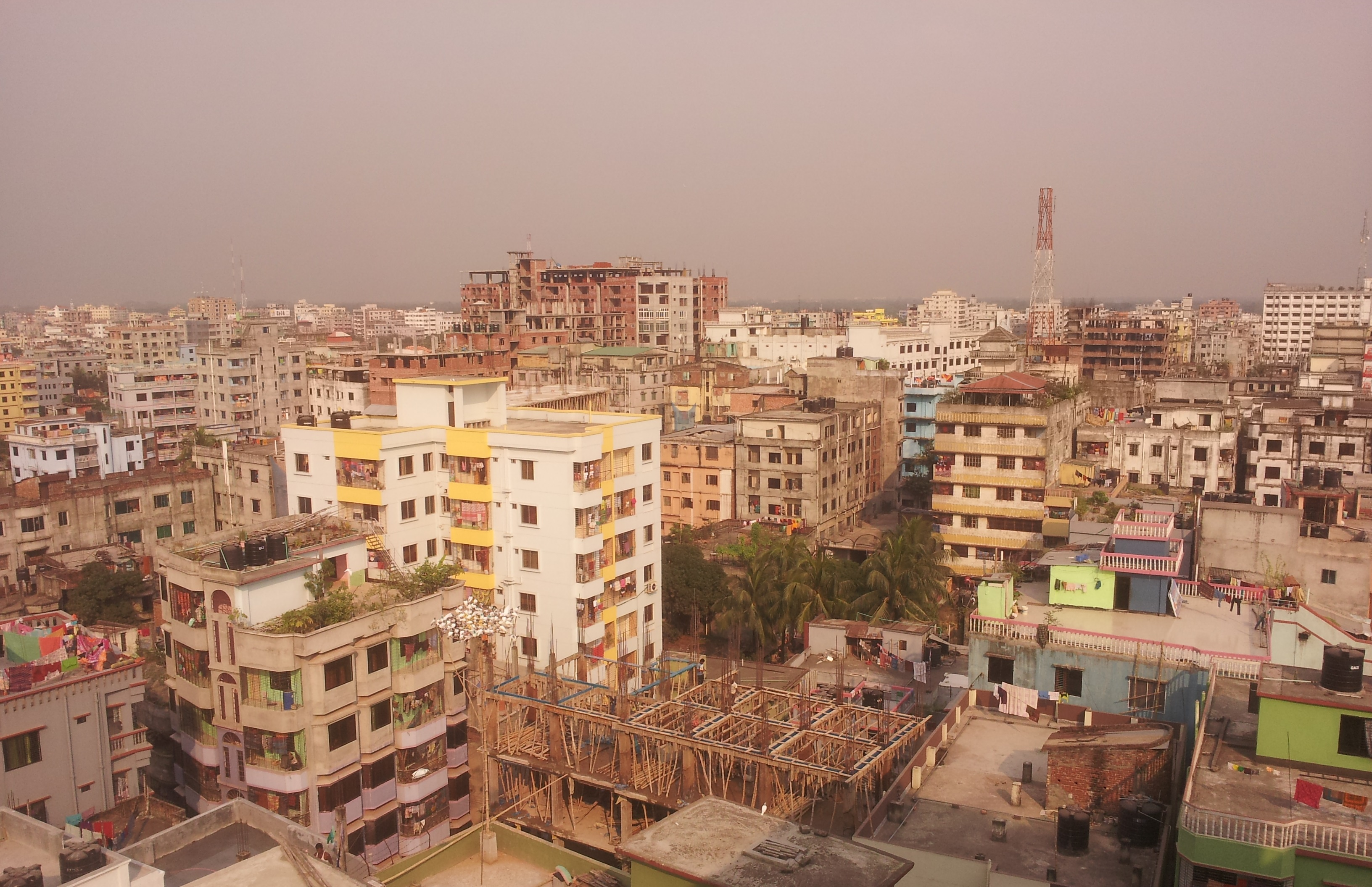 Savar municipality, Dhaka.